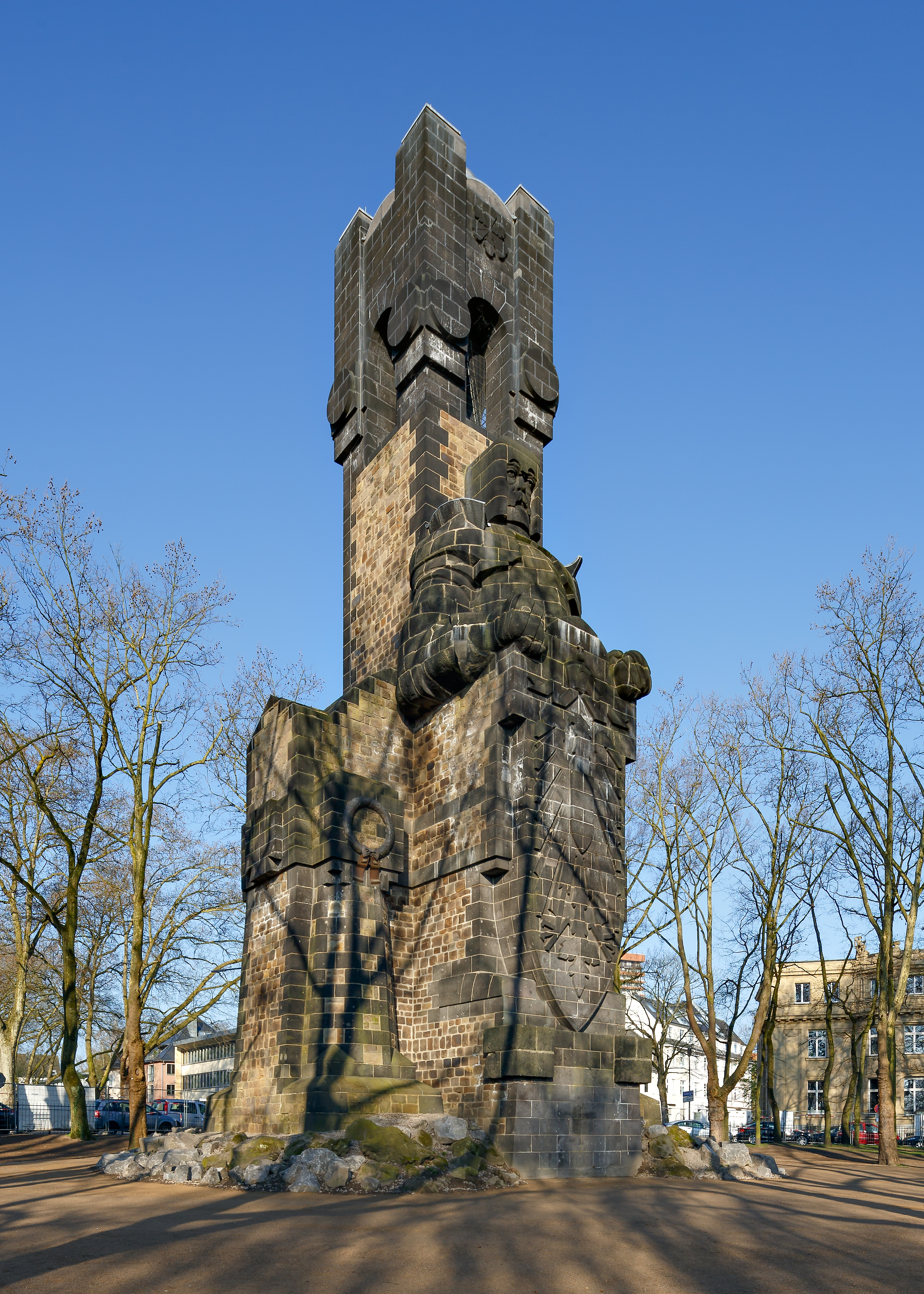 Cologne, Germany: Bismarck Tower after refurbishment in 2016